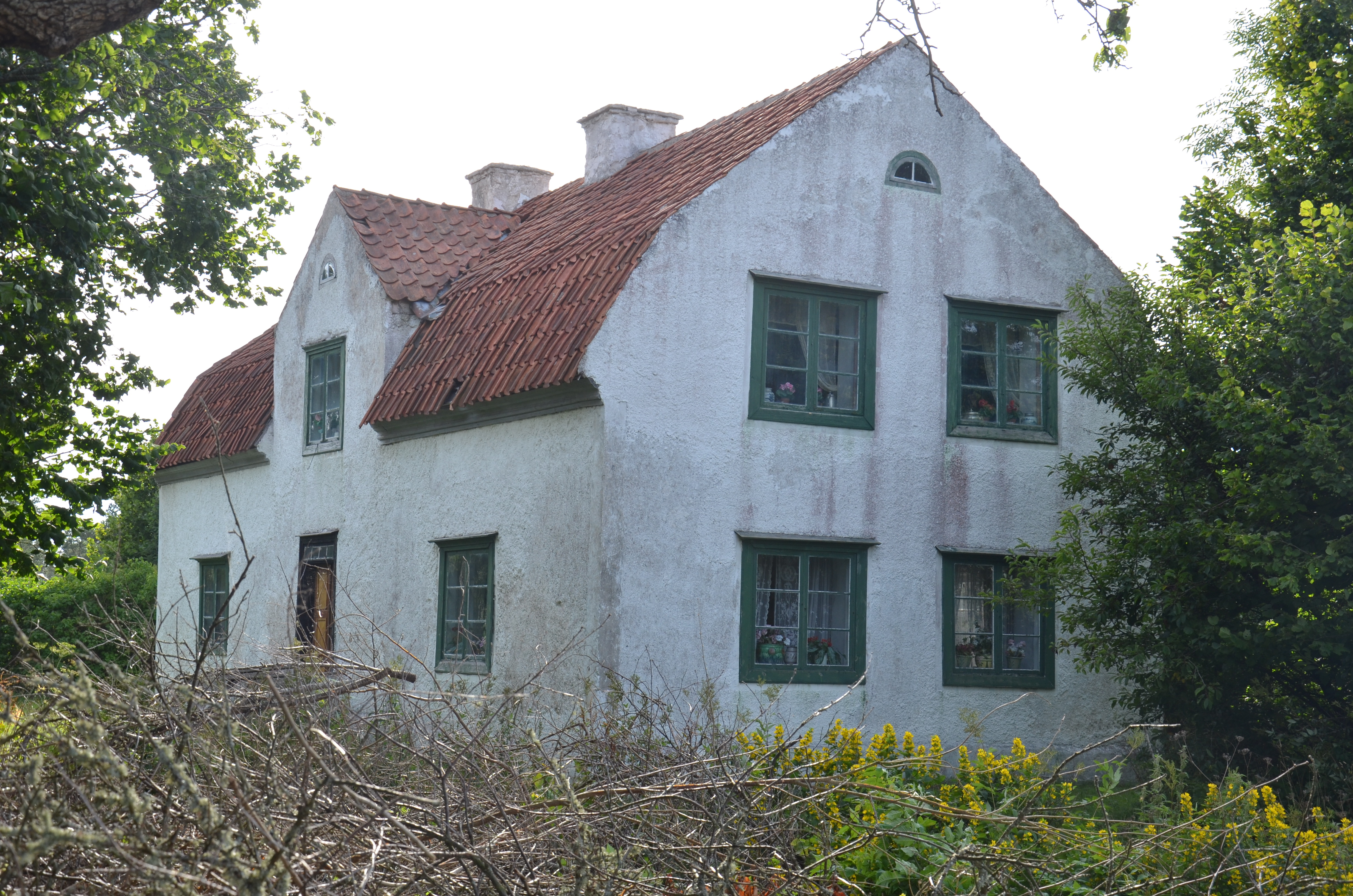 Lassor gård, Fårö, Gotland